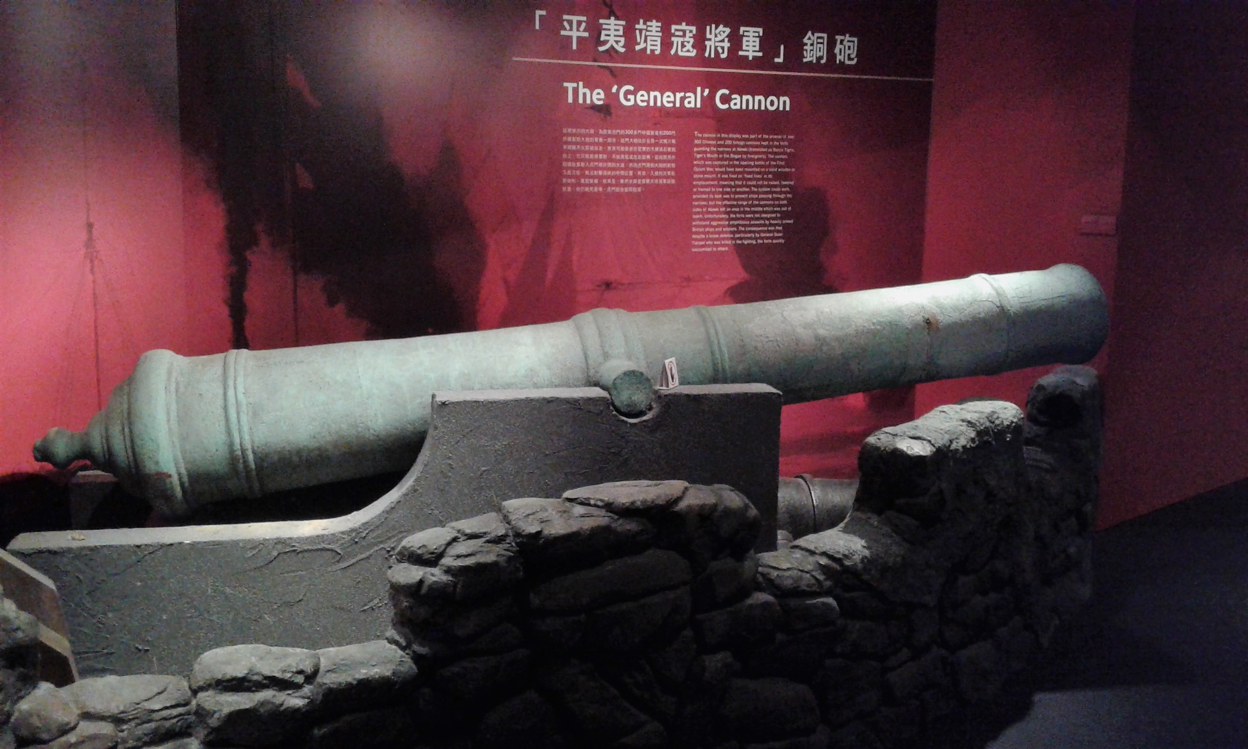 Cannon exhibited at the Hong Kong Maritime Museum. Site notice: "The cannon in this display was part of the arsenal of over 300 Chinese and 200 foreign cannons kept in the forts guarding the narrows at Humen (translated as Boca Tigris, Tiger's Mouth or The Bogue by foreigners). The cannon, which was captured in the opening battle of the First Opium War, would have been mounted on a solid wooden or stone mount."